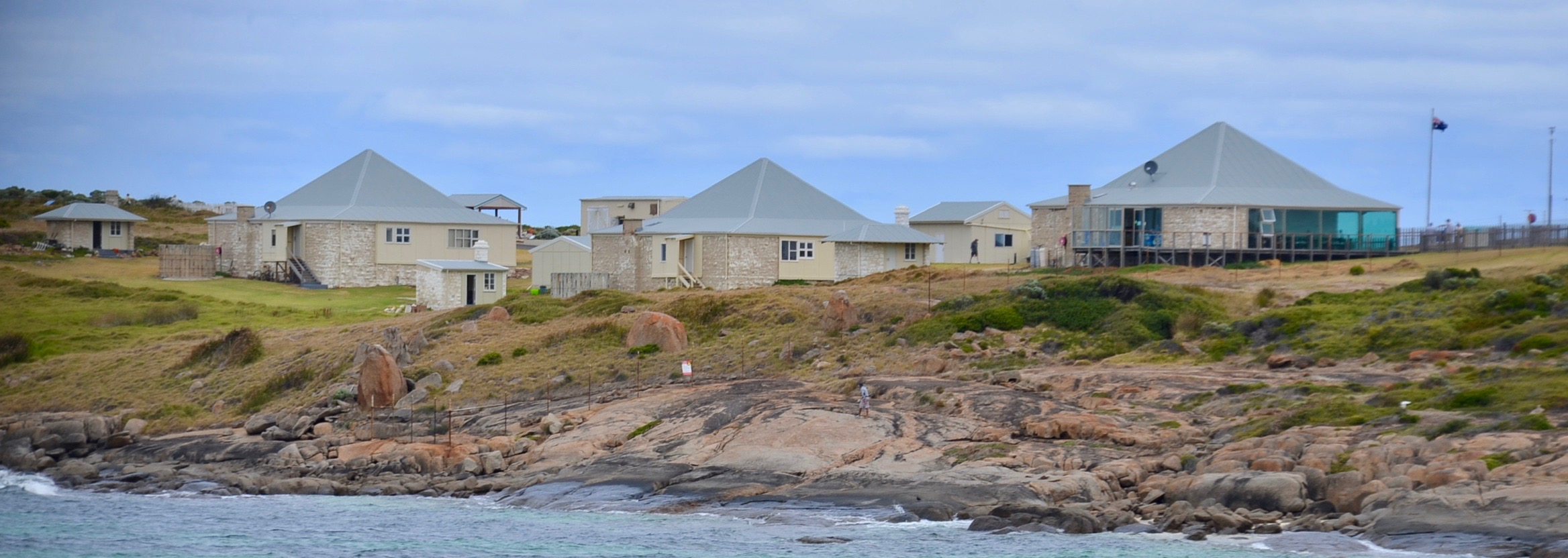 Cape Leeuwin, Western Australia, former lighthouse keepers cottages and rocks on the east side of the Cape Leeuwin promontary